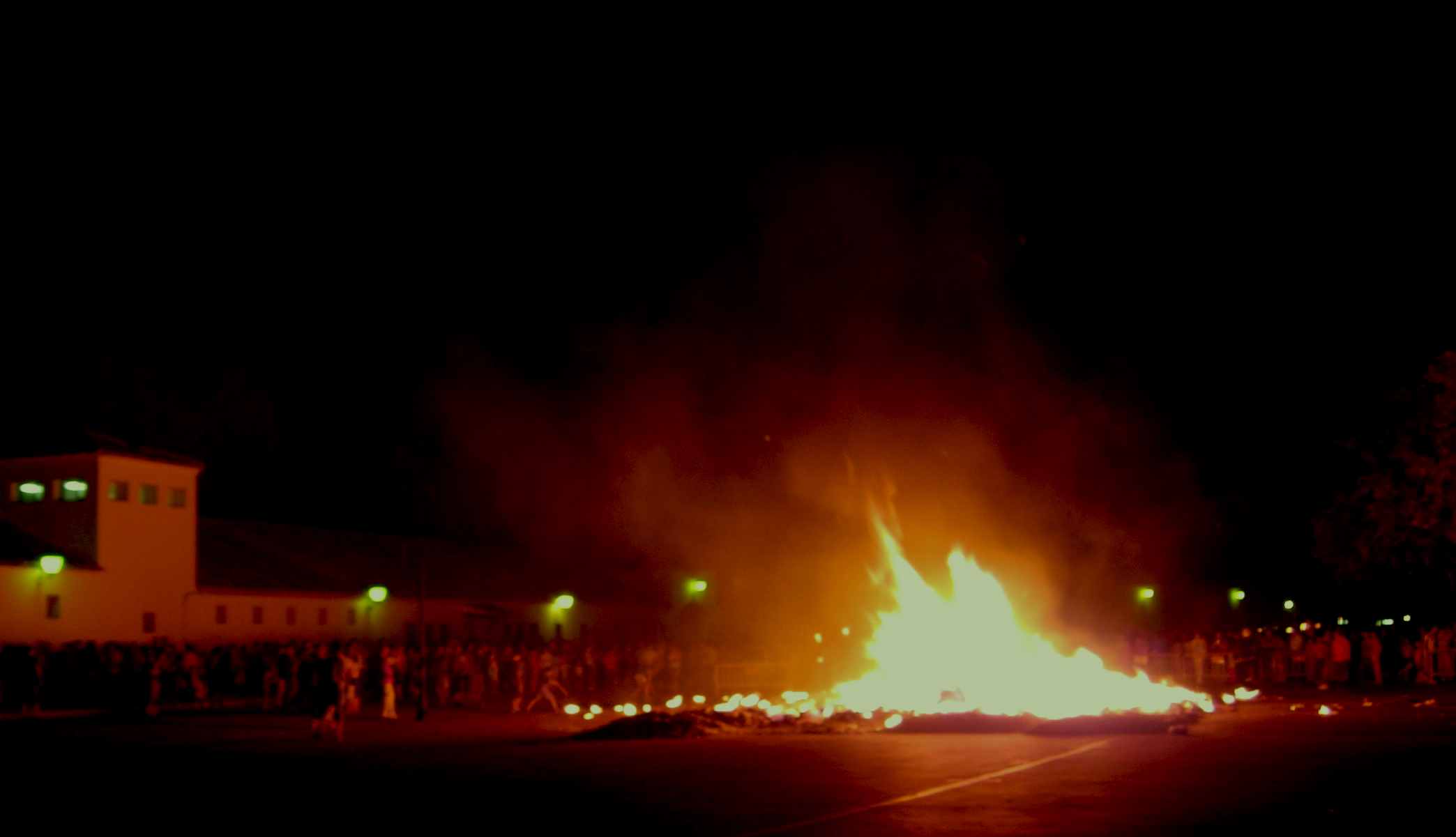 color balance